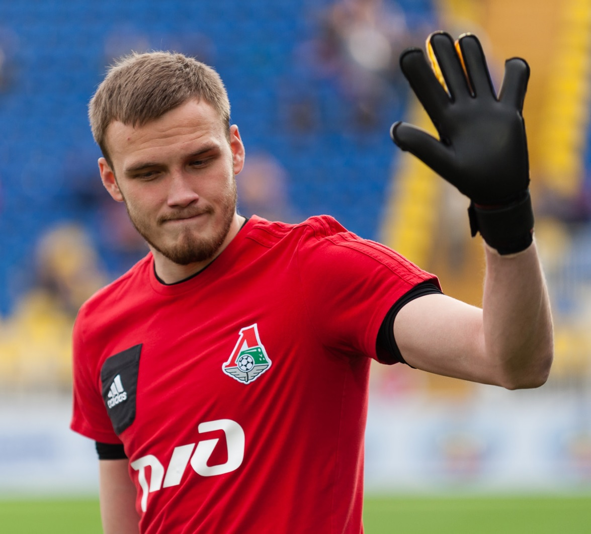 Nikita Medvedev with FC Lokomotiv Moscow before the game against FC Rostov.